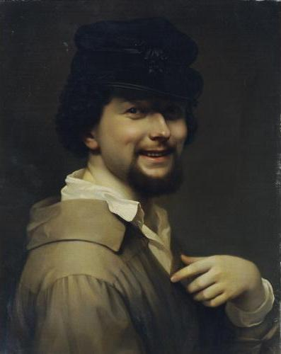 Georg Martin Ignaz Raab. Self-portraits